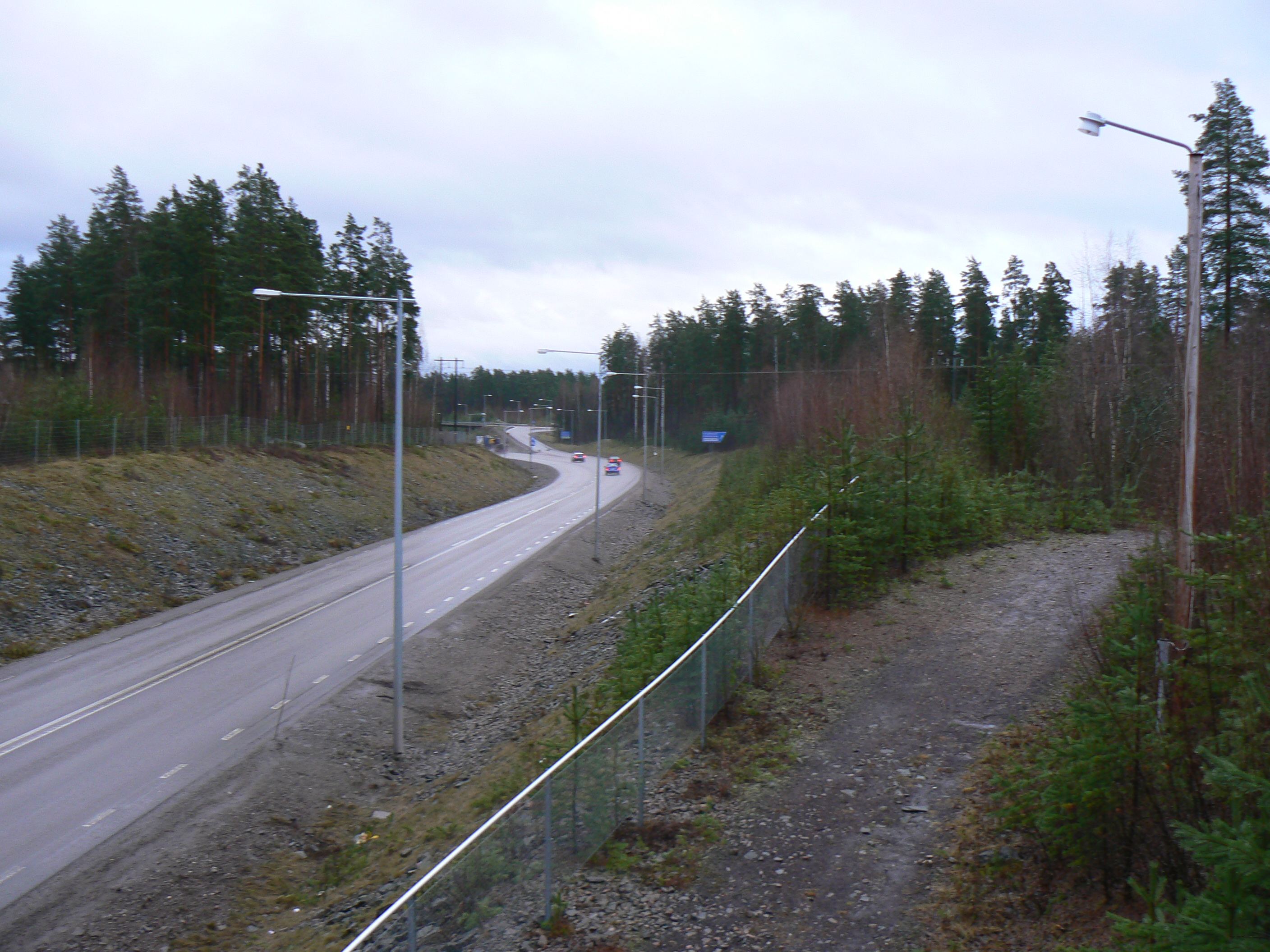 Lugnetleden. Road in Falun, Sweden, that leads Swedish national road 80 pass the central parts of the town. Photo by Skvattram 2007-01-04.